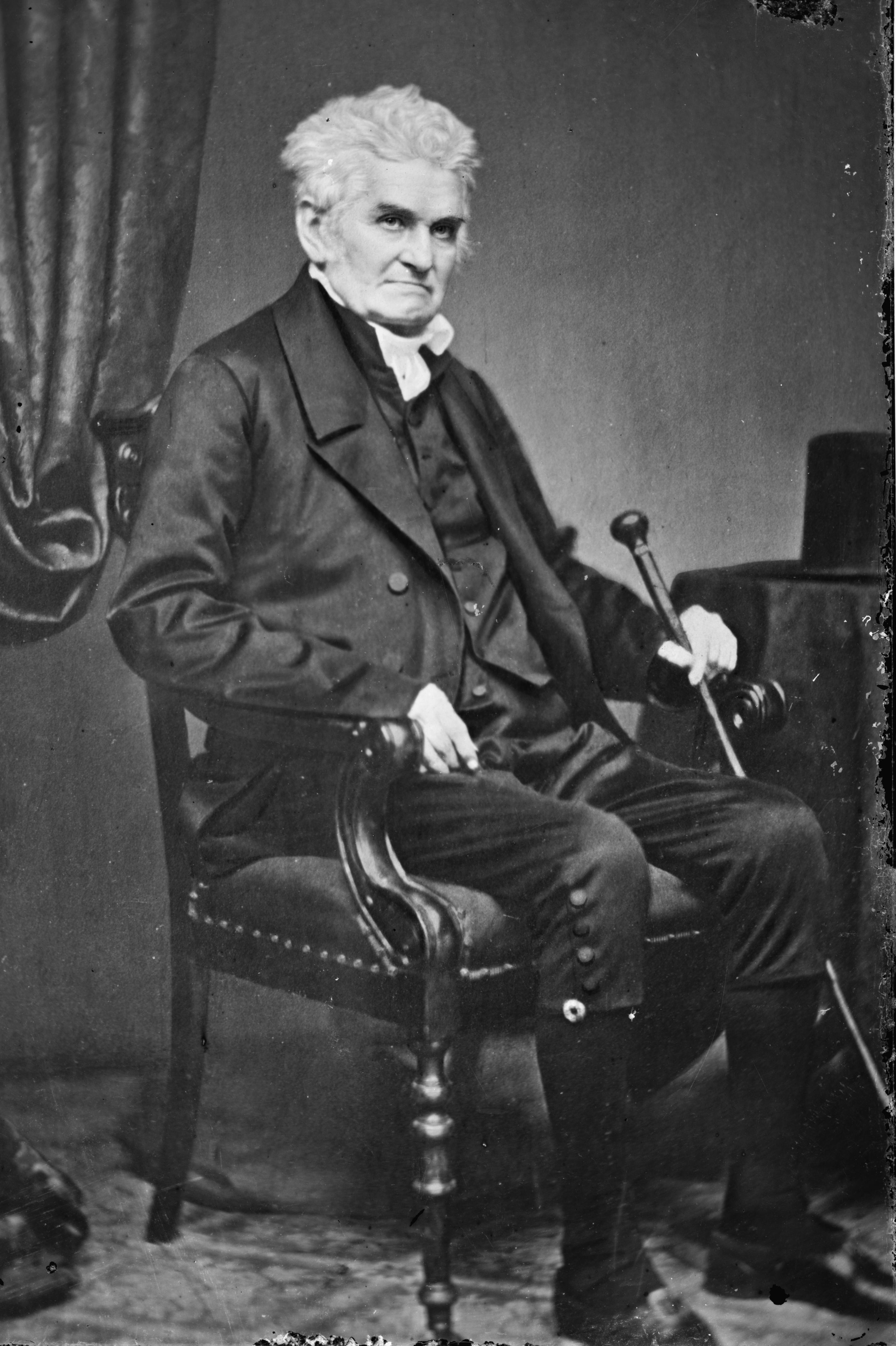 George M. Bibb. Library of Congress description: "Hon. George M. Bibb of Ky"